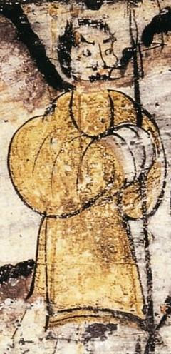 Fan Zeng 中文（中国大陆）: 范增，项羽谋士